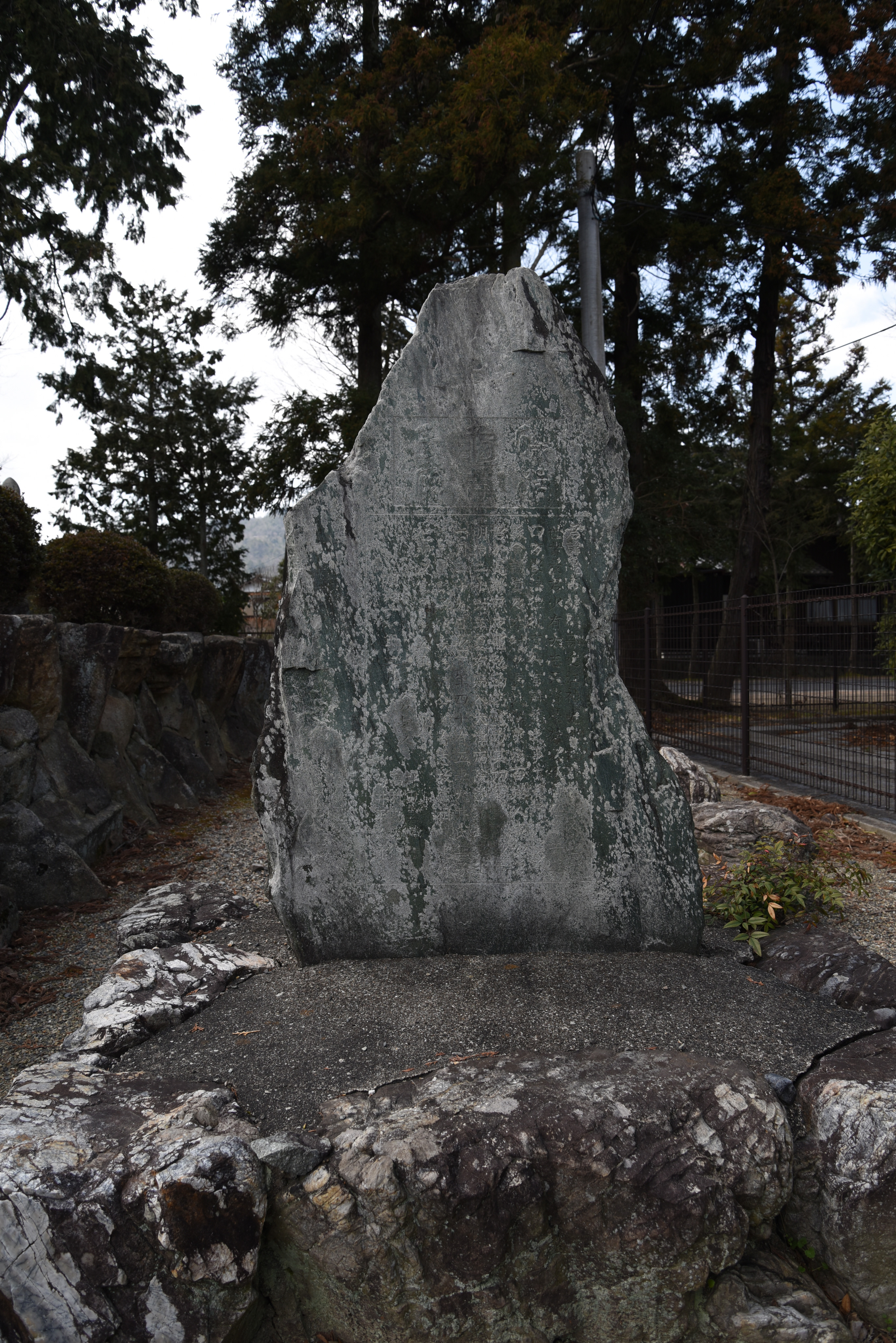 This rock is not art. This rock wrote Isobe Kamekich's lifetime.